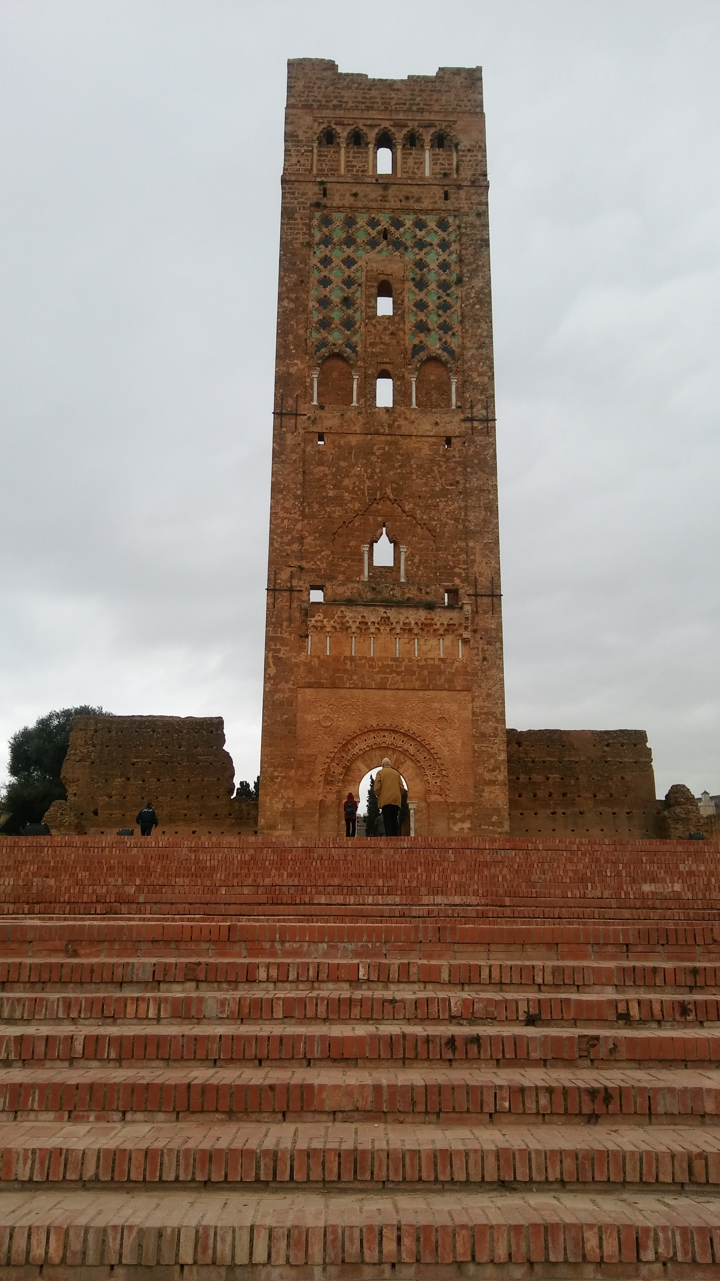 Almansourah Islamic Ruins